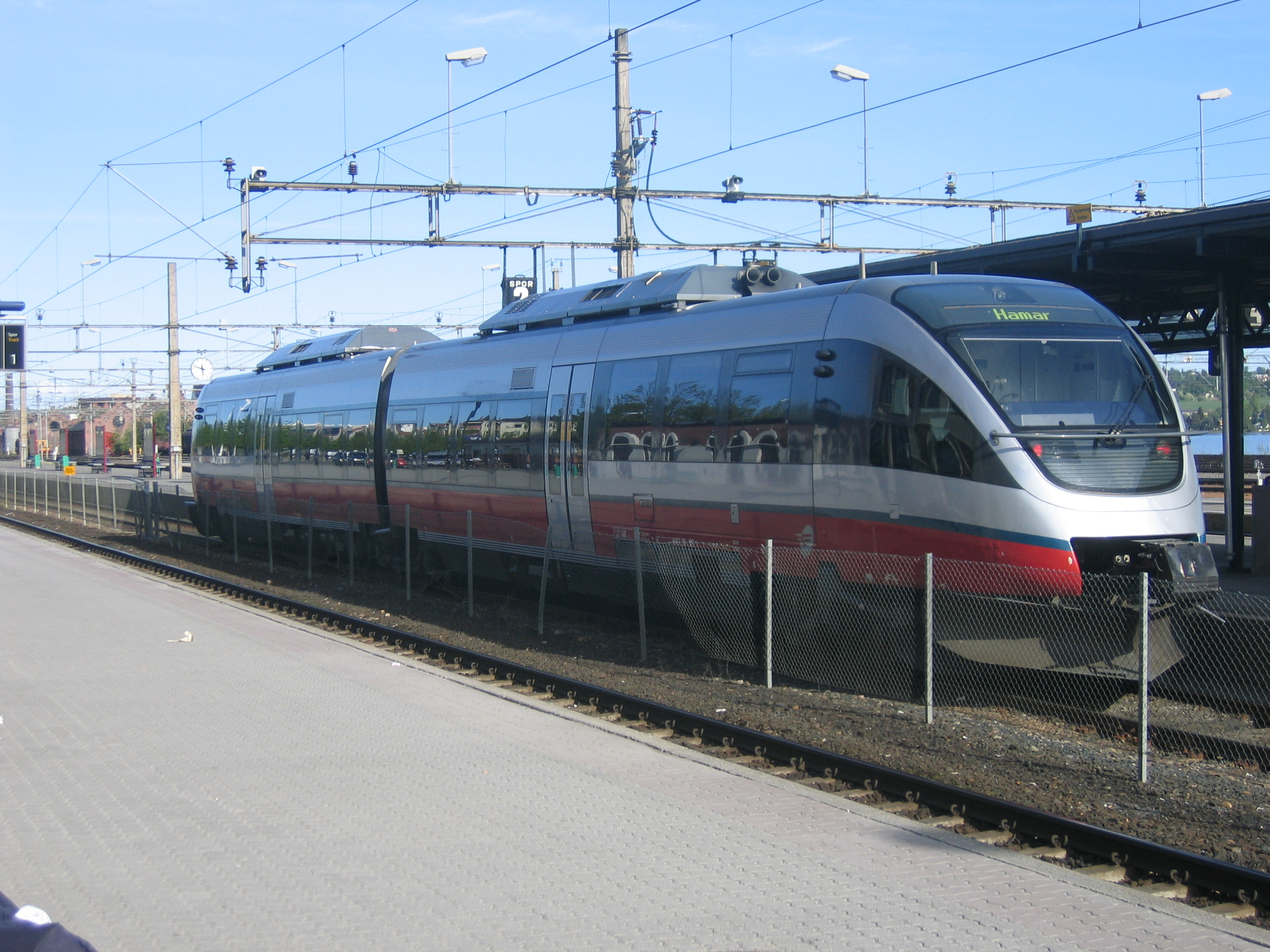 Multiple diesel unit, NSB type 93 in Hamar, Norway.